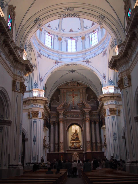 Dolores Iglesia